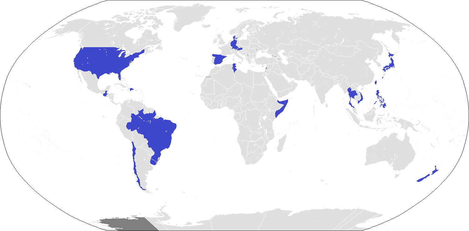 Users of M41 Walker Bulldog tank